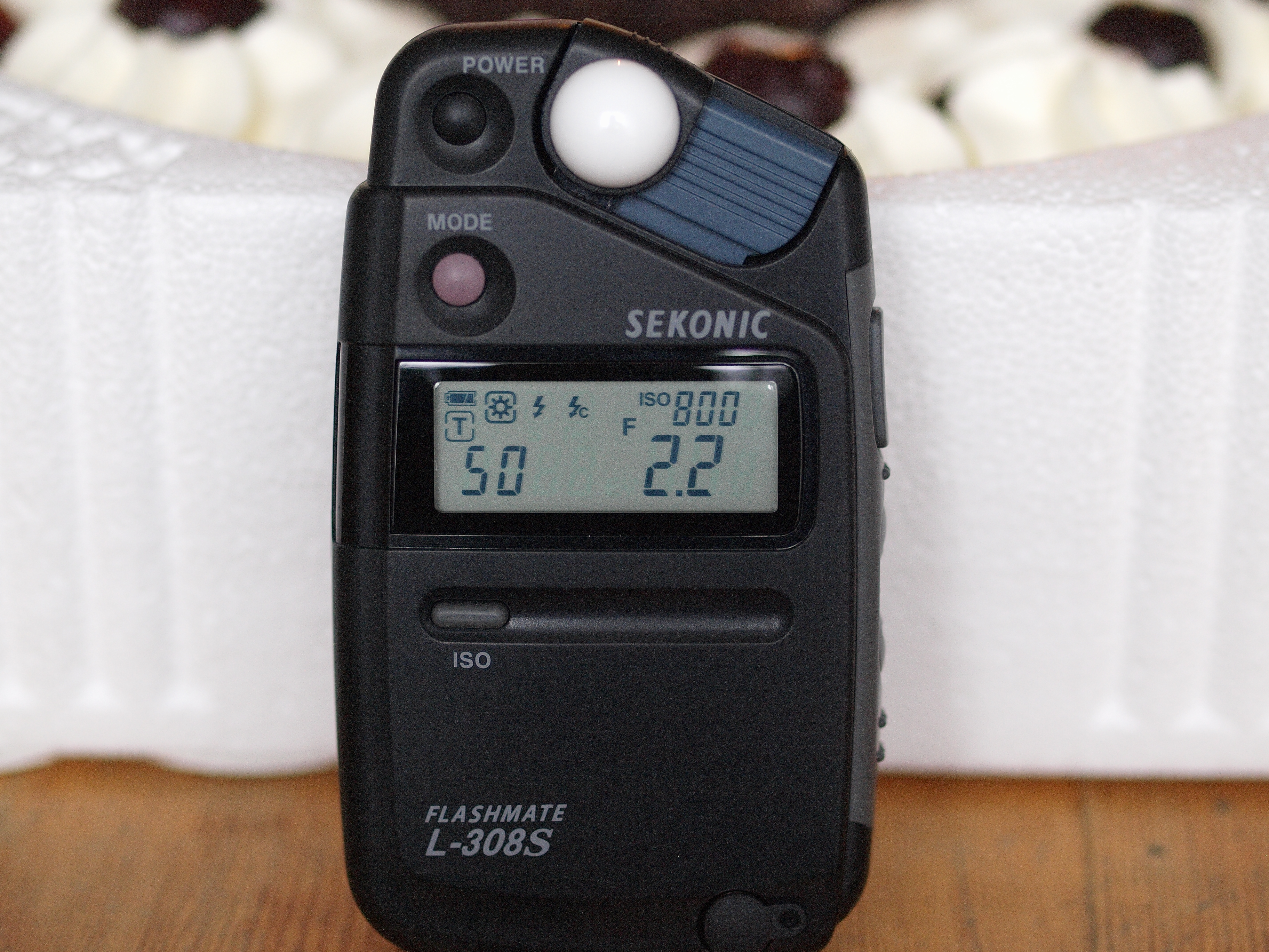 Flash meter - photo for an article about light measuring on my blog